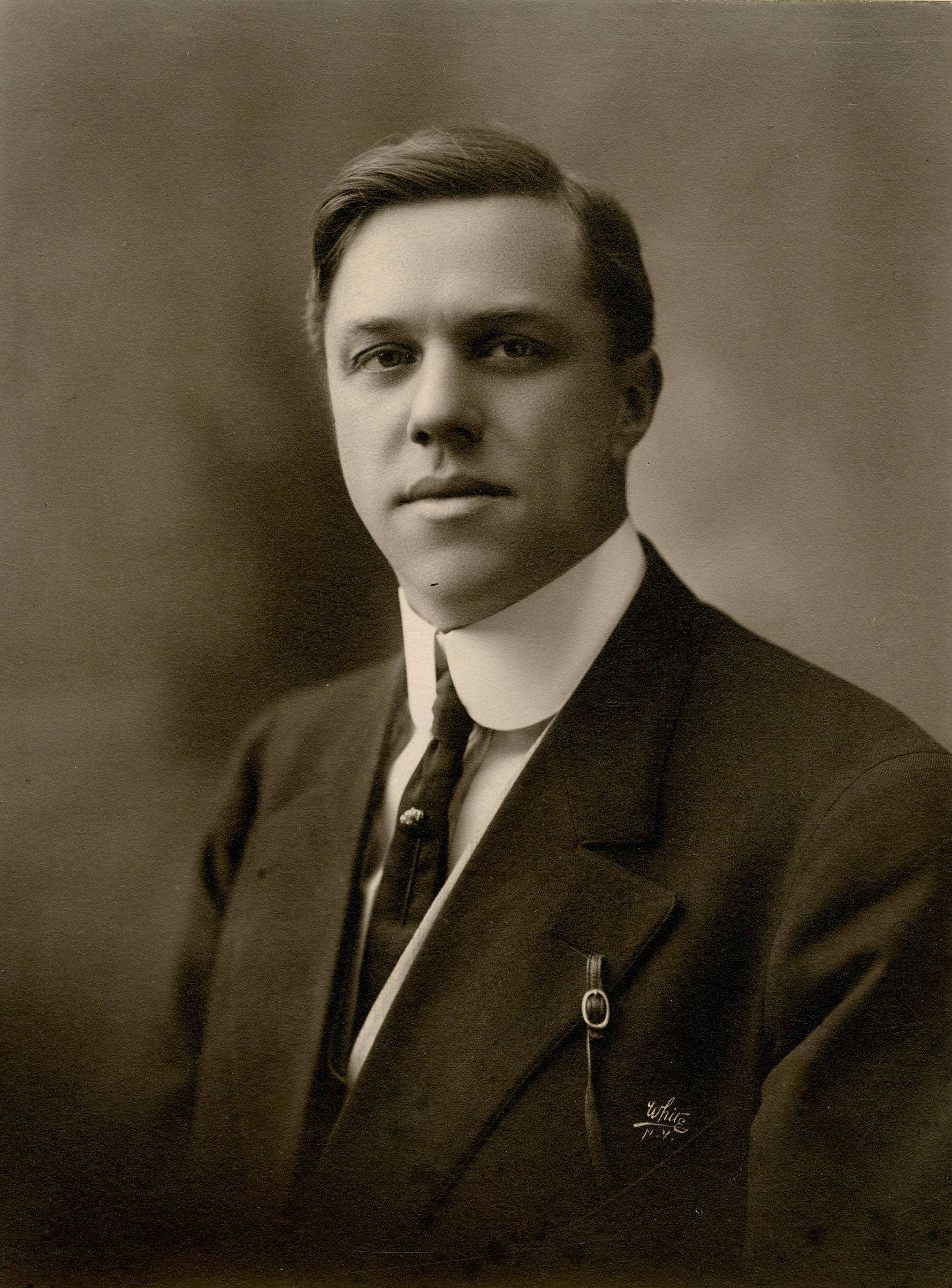 Homer B. Mason Subjects: actors